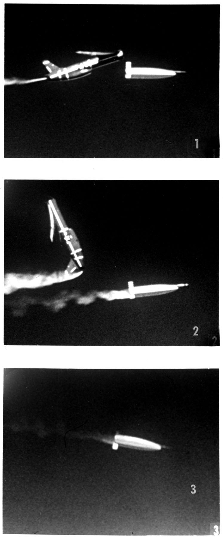 Northrop SM-62 Snark